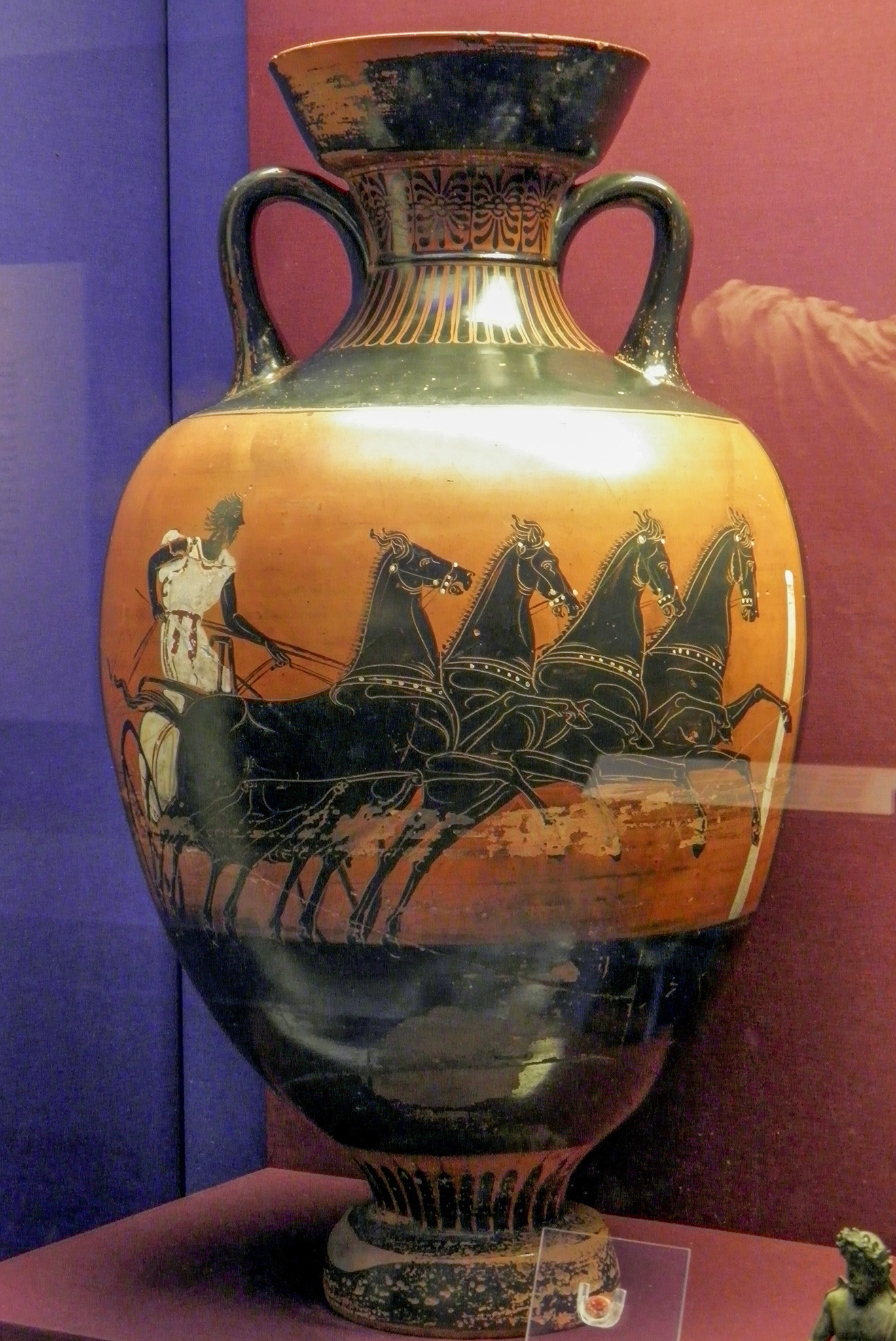 A prize for a victor at the Athenian games This vase belongs to a distinctive type given as a prize to the winner of the chariot race in the ancient games held at Athens during the yearly festival known as the Panathenaia. The festival honoured Athena, the city's patron deity. The vase would have been one of 140, each containing 40 litres of olive oil, given to the winner. Chariot racing was the most popular spectator sport in ancient times. Up to 40 chariots could compete in a race and crashes were common. The two turning posts at either end of the oblong course were the most dangerous parts of the track. The painter of this vase has been highly successful in creating the illusion of speed as the chariot careers along. A quadriga chariot drawn by four horses is shown, the hair and tunic of the charioteer are blown back, and the manes and tails of the horses fly in the rush of air. The chariot is coming up to a post which may represent the turn or the finish of the race. Both moments would be climaxes. While the sport for which the prize was given was shown on one side of these vessels, Athena herself was usually shown on the other side. On this one she wears a high-crested helmet, an elaborately decorated chiton (tunic), and her characteristic aegis, a snake-fringed poncho worn around her neck.